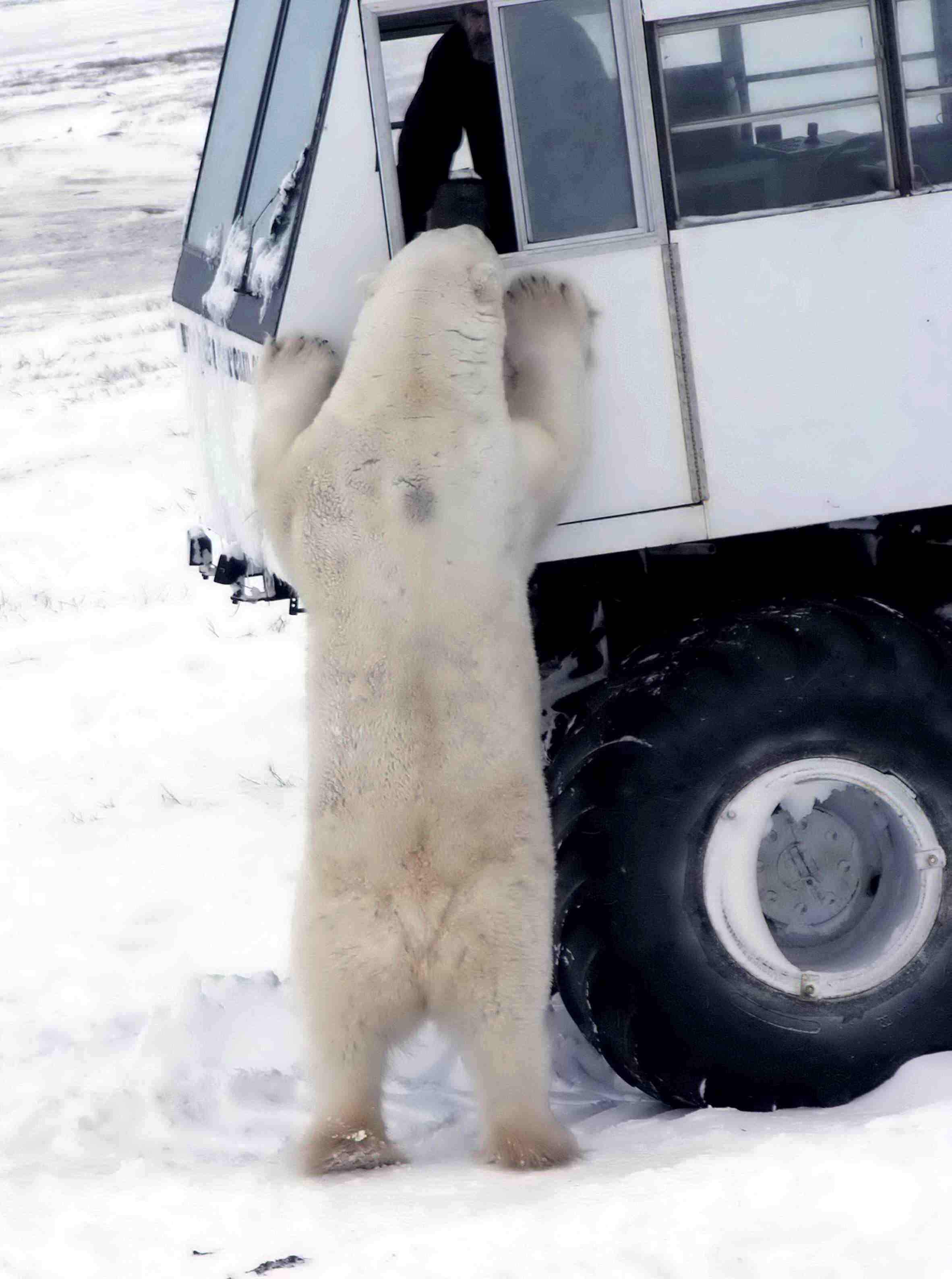 Polar bear visiting Tundra Buggy (Wapusk National Park, Manitoba, Canada)